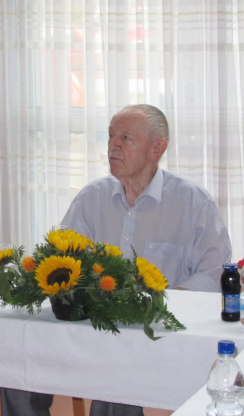 Ivan Dolničar (1921-2011), Slovene partisan, general of Yugoslav People's Army and politician